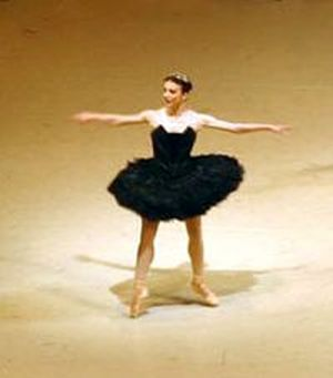 Scene from Swan Lake, Act III at the Vienna State Opera Odile: Simona Noja Choreography: Rudolf Nurejew and Marius Petipa Scenery and costumes: Jordi Roig Choreography rehearsing: Richard Nowotny Photographed on 8 October 2004 by Peter Gerstbach License status: GFDL